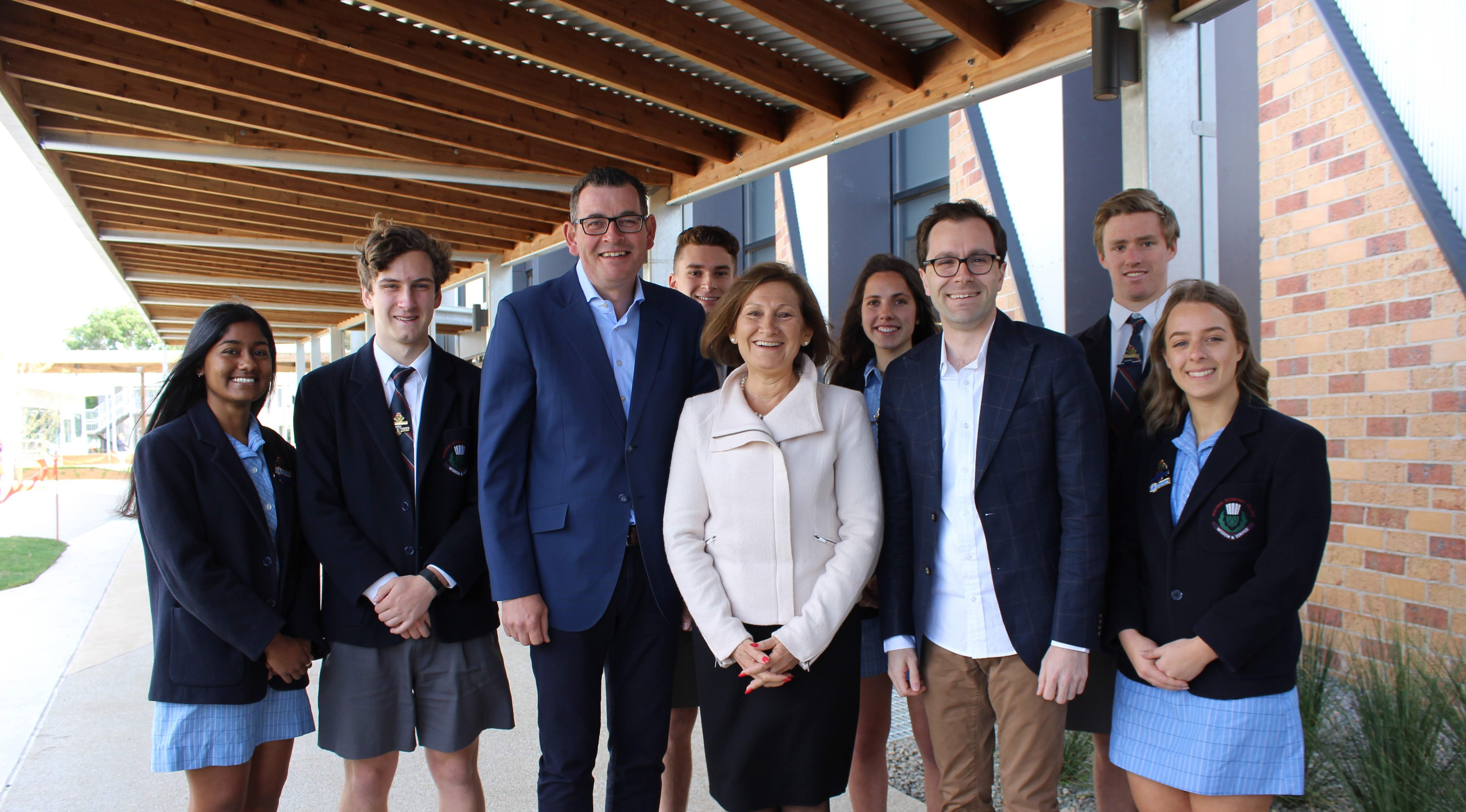 Premier Daniel Andrews and Nick Staikos MP at McKinnon Secondary College